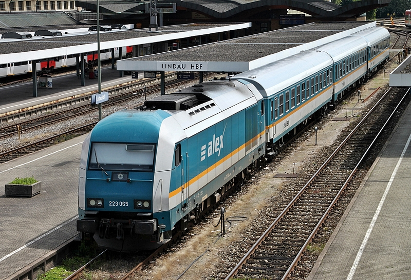 Lindau: train of the "Arriva-Länderbahn-Express" (ALEX) with a Eurorunner (class 223) waiting in the central train station.